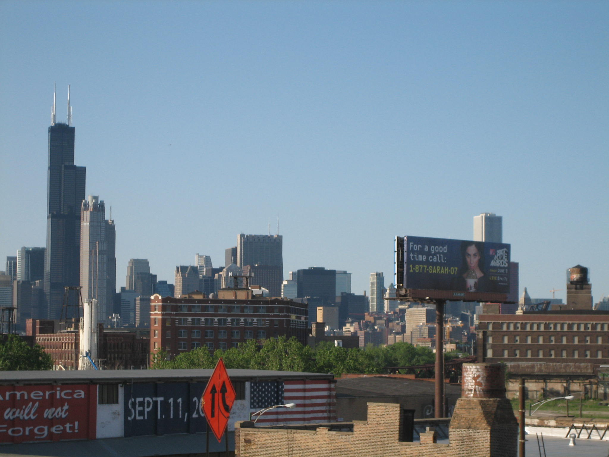 The Chicago skyline from I-90/94, Chicago, Illinois. The Sears Tower, the tallest visible building, is on the left. The top of the Aon Center is visible above a billboard.